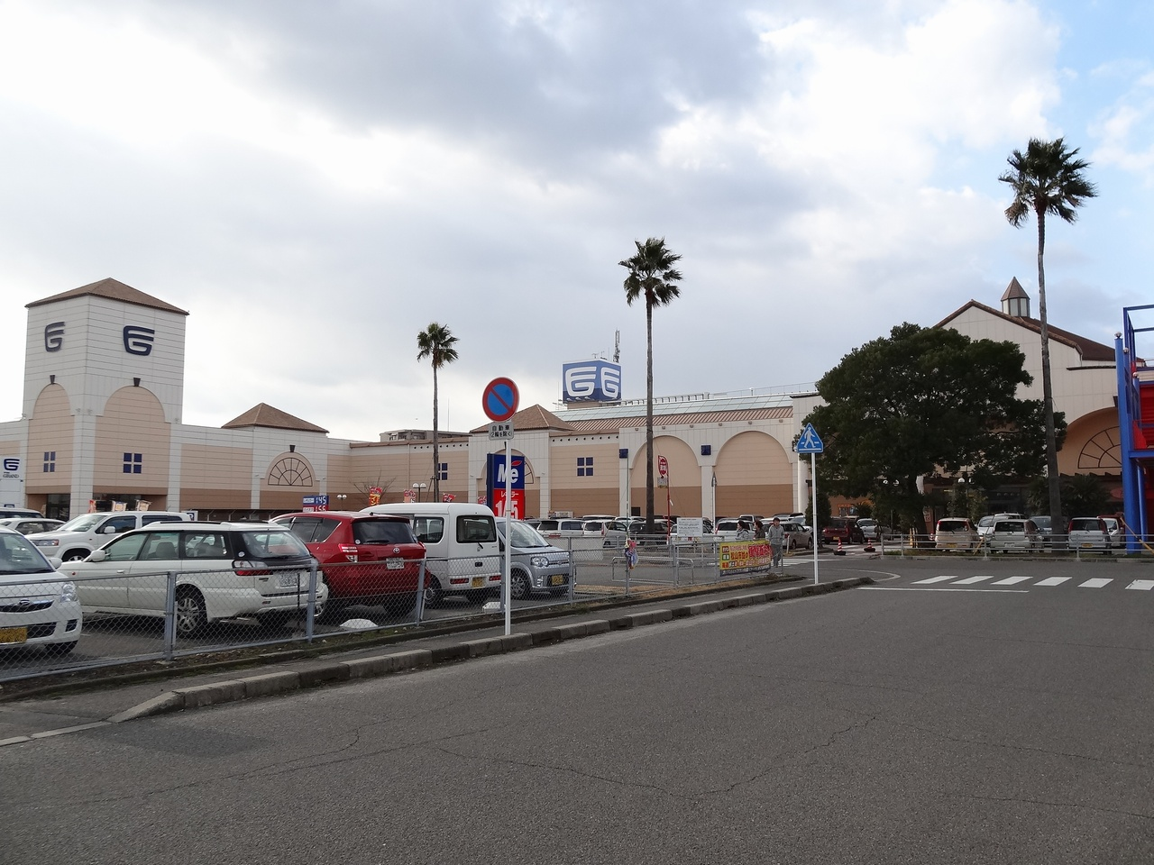 Fuji Grand Imabari is a Shopping Center in Central Imabari City, Ehime Prefecture, Japan.